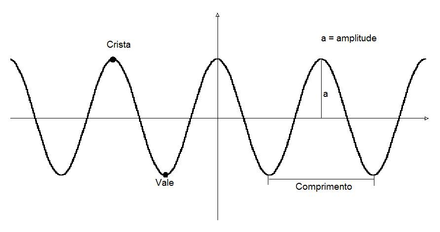 Desenhos de ondas eletromagnéticas